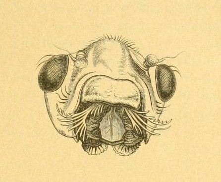 Edmund Reitter,1887 Einige Beobachtungen über die Eigenart der Canace ranula Loew 1887 Wiener Entomologische Zeitung Volume 6 figure of Canace ranulaLoew head